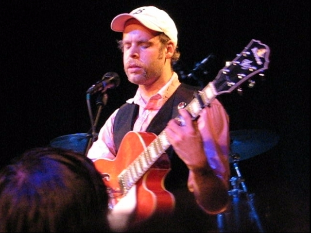 Will Oldham, Christchurch, New Zealand.